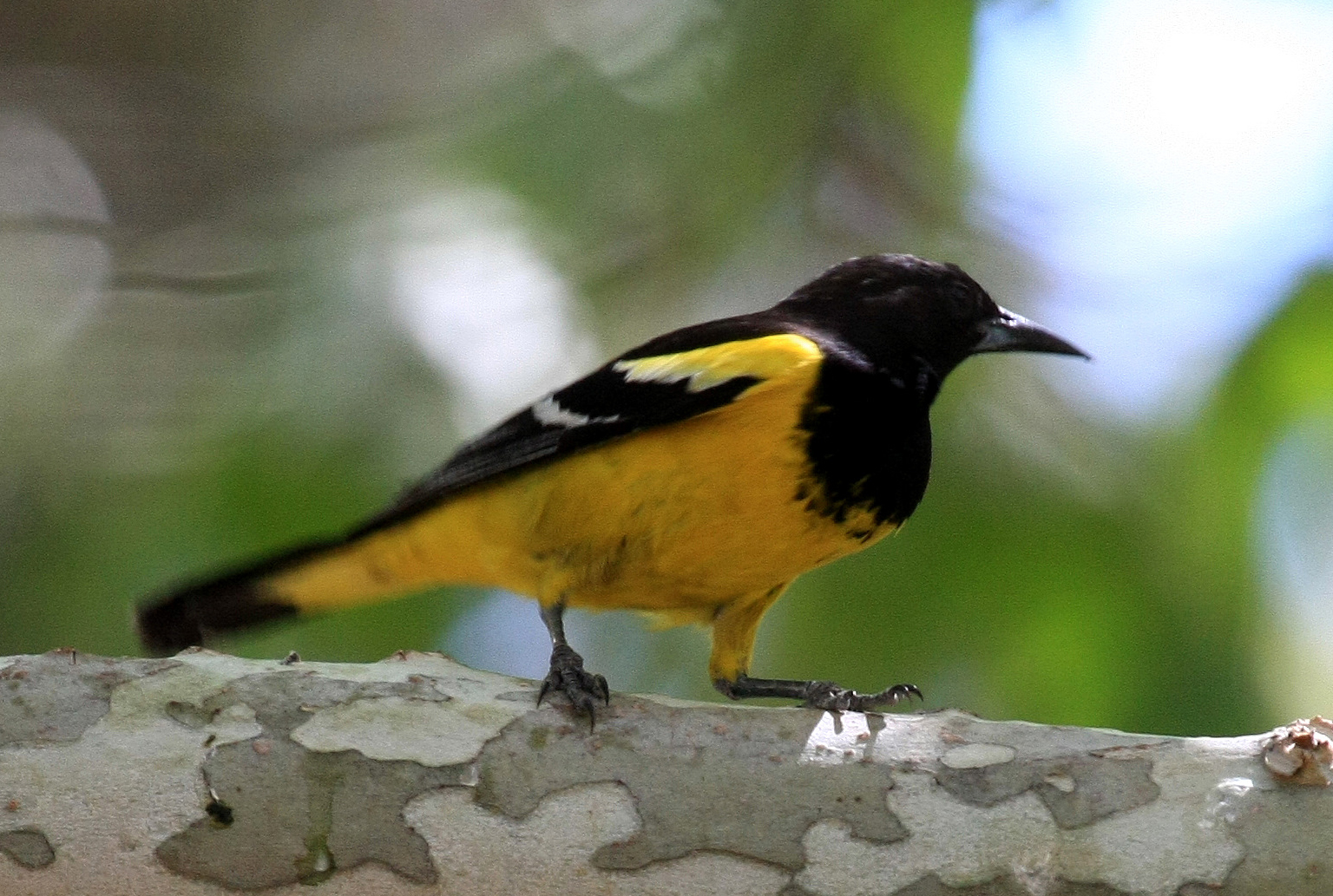 Icterus parisorum, Arizona.